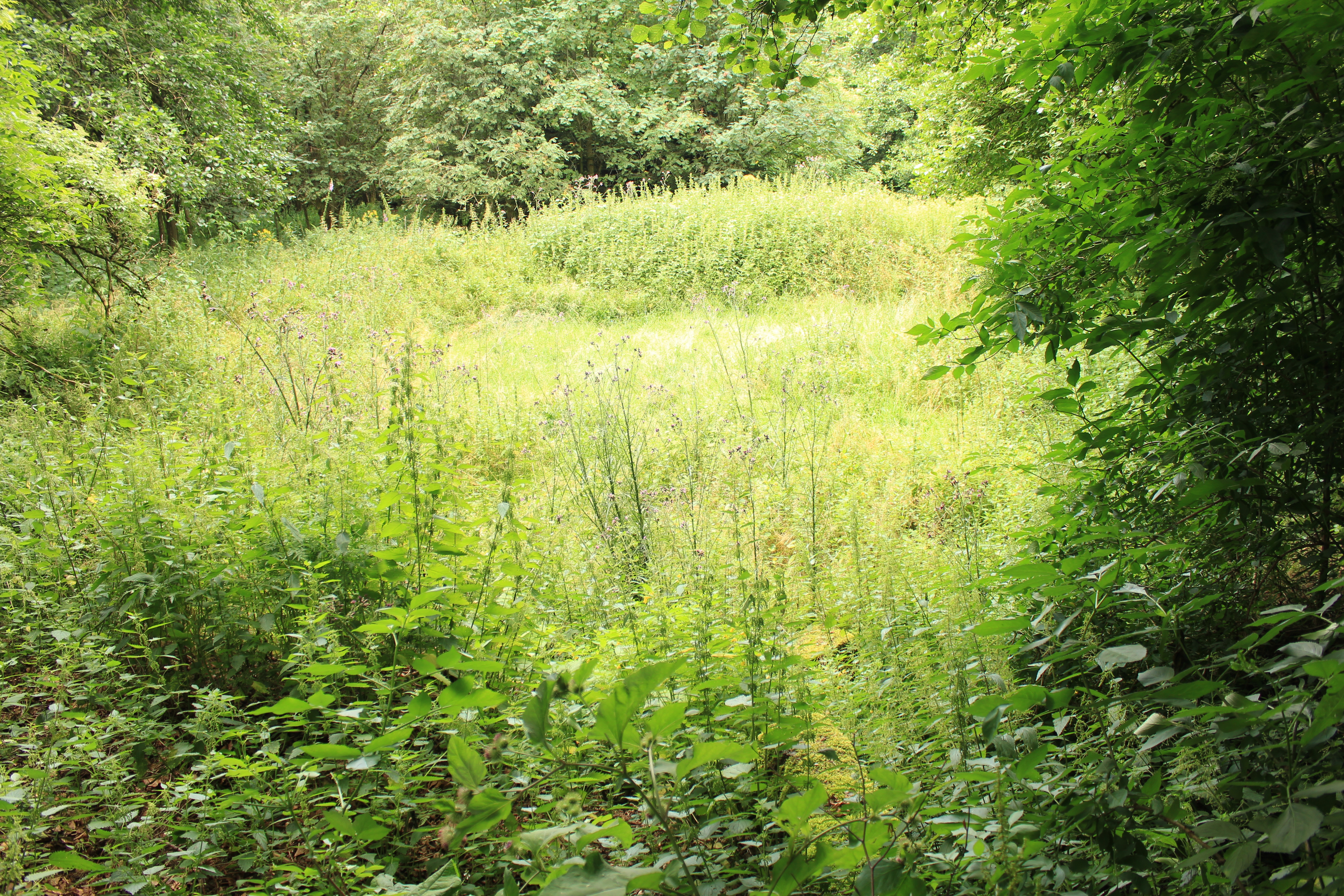 Spring of the Steina (Schwalm) westside from the Knüllköpfchen